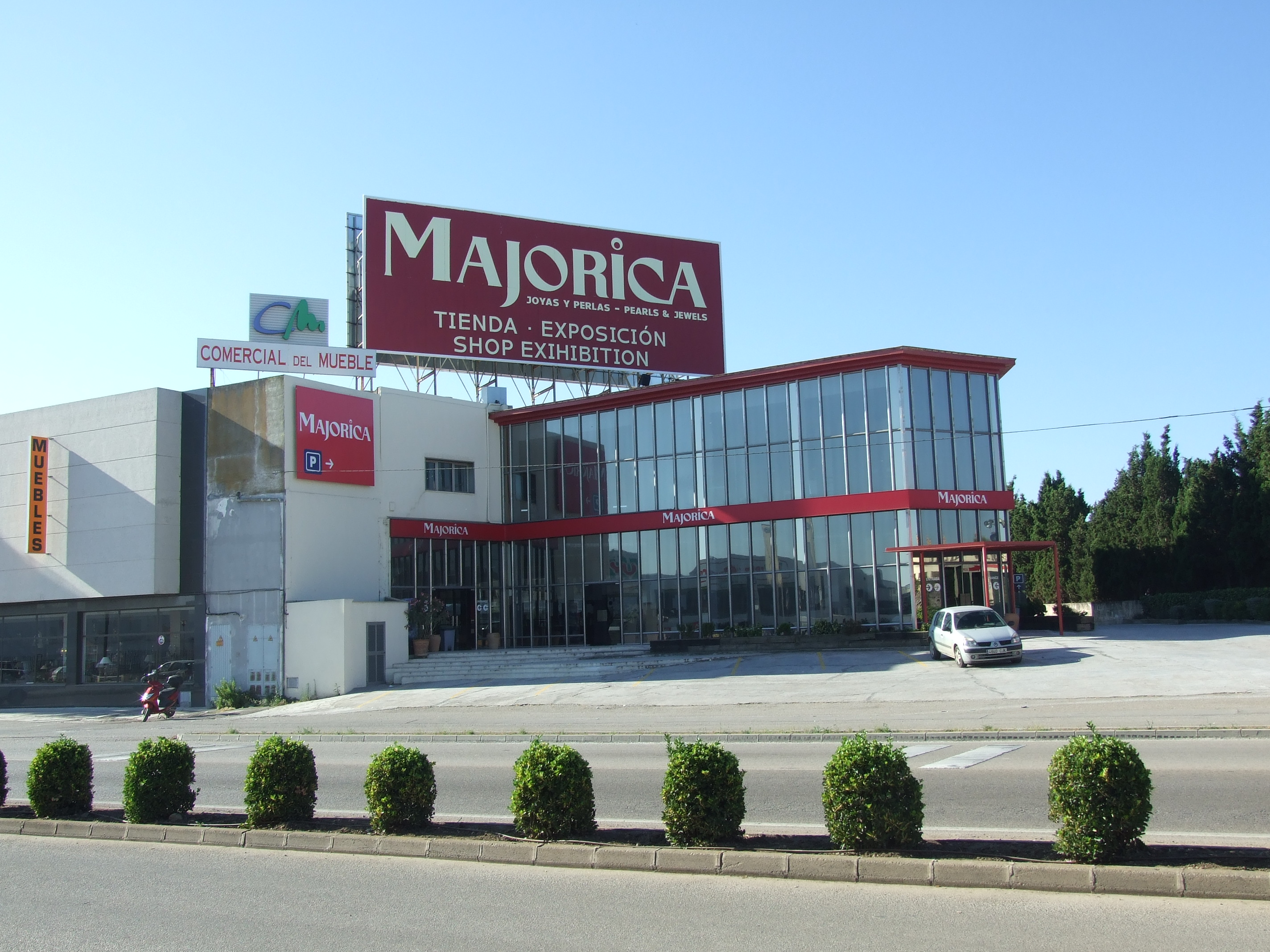 Ausstellung Perlas Majorica in Mallorca, city of Manacor